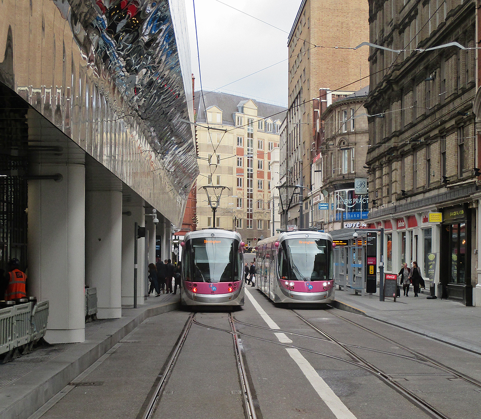 Two trams in Stephenson Street The Midland Metro extension opened on 30 May 2016. The tram on the left has just arrived at the Stephenson Street terminus from Wolverhampton. The one on the right is waiting to depart.